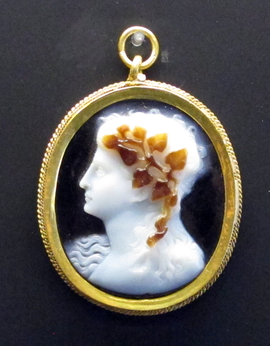 Roman antiquities in the Musée d'art et d'histoire de Genève